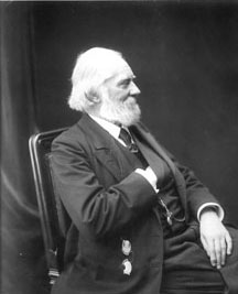 Theodor Leschetizky